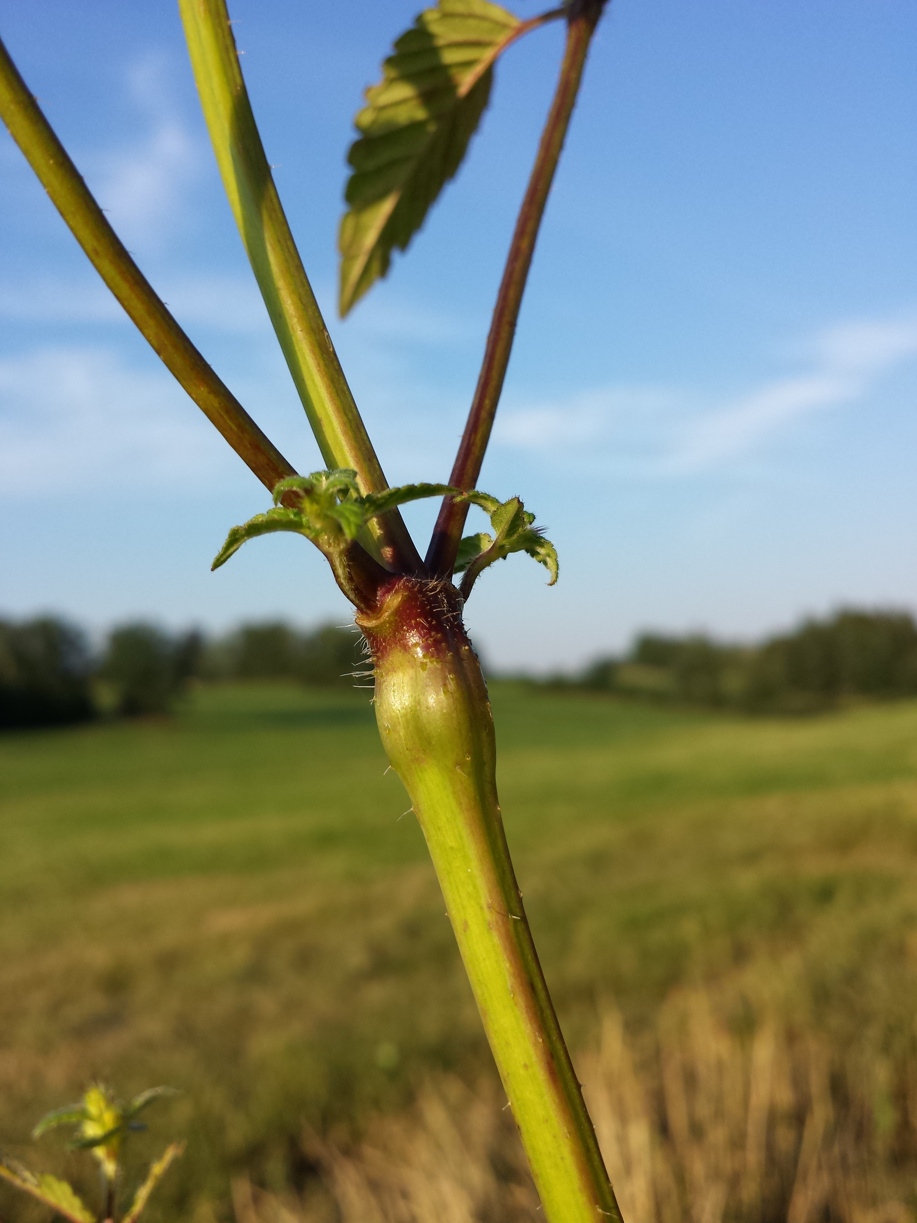 Stipe Taxonym: Galeopsis tetrahit ss Fischer et al. EfÖLS 2008 ISBN 978-3-85474-187-9 Location: near Arbesbach, Groß-Gerungs, district Zwettl, Lower Austria - ca. 850 m a.s.l. Habitat: border of a field